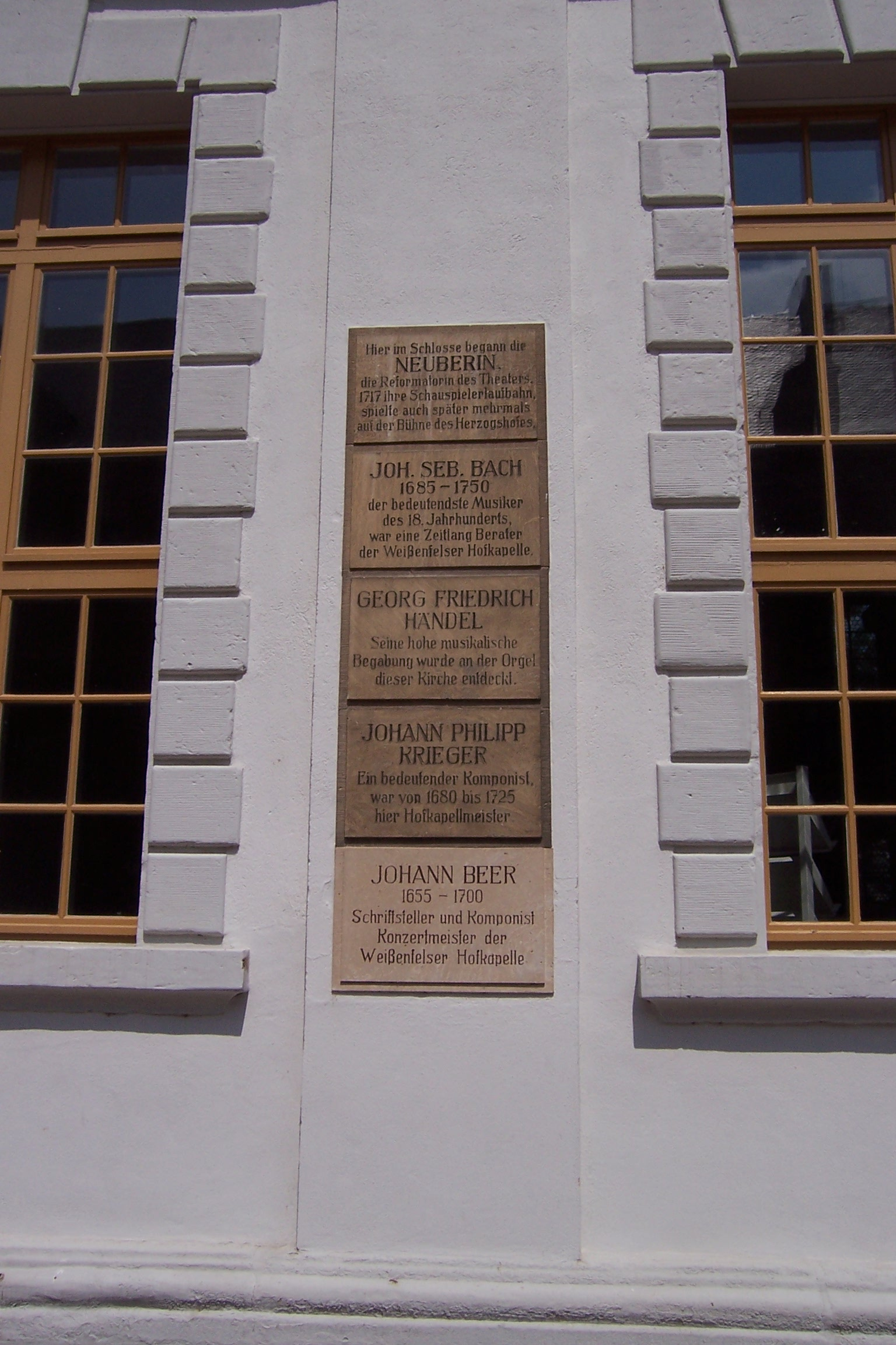 Memorial tablets on courtyard wall of palce chapel, Schloss Neu-Augustusburg, Weissenfels